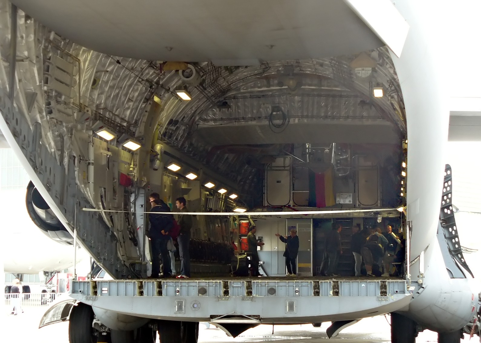 The inside of a C-17 Globemaster III cargo plane; photo taken at the ILA 2006